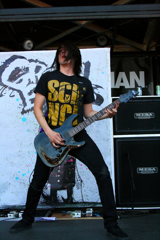 Alex Torres in 2008.